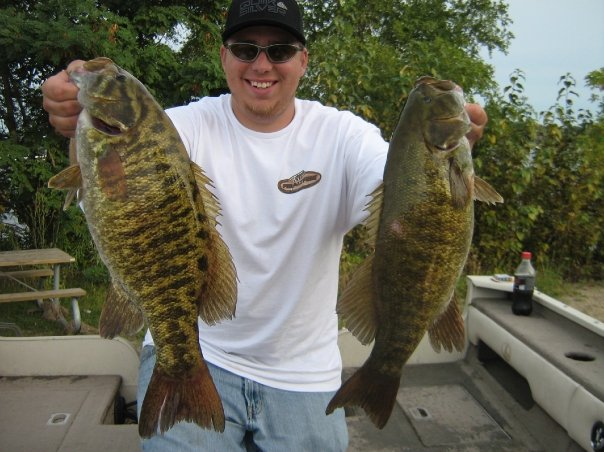 Fisherman holding two rock bass (Ambloplites rupestris)